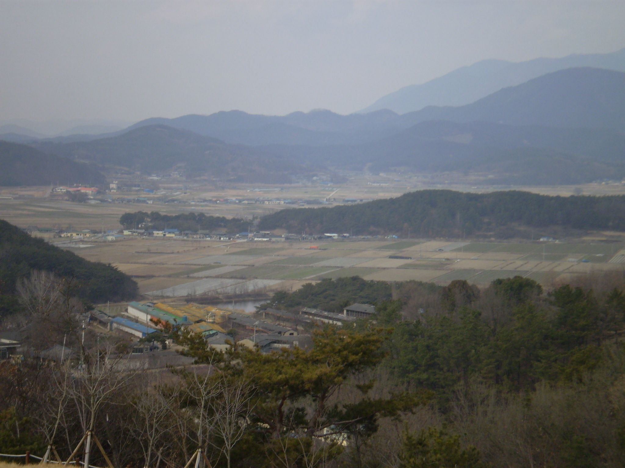 Winter fields in Changnyeong, Gyeongsangnam-do, South Korea.